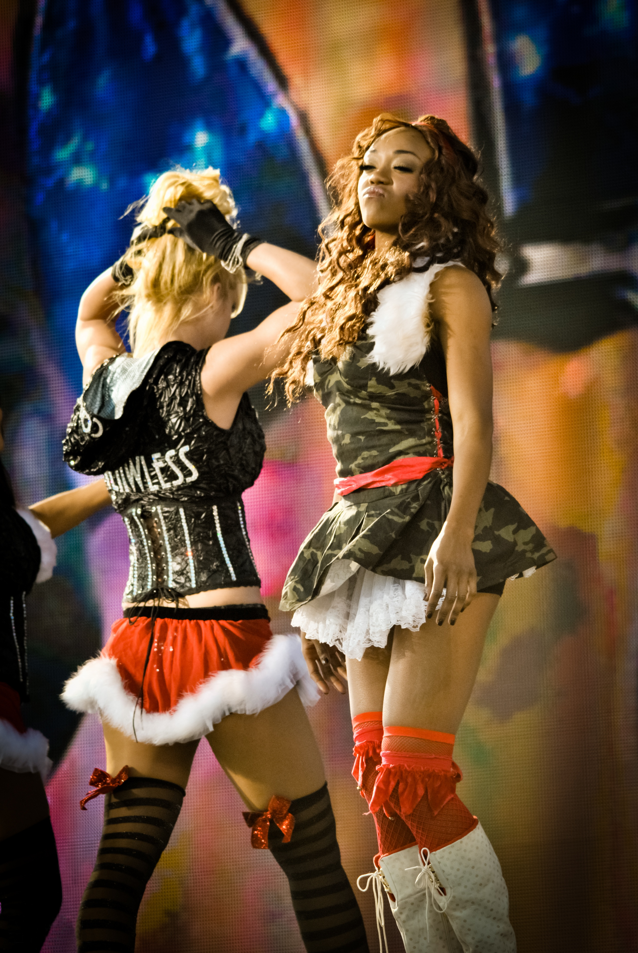 Alicia Fox at the 2010 Tribute to the Troops show held by WWE in Fort Hood, Texas, on December 11, 2010.